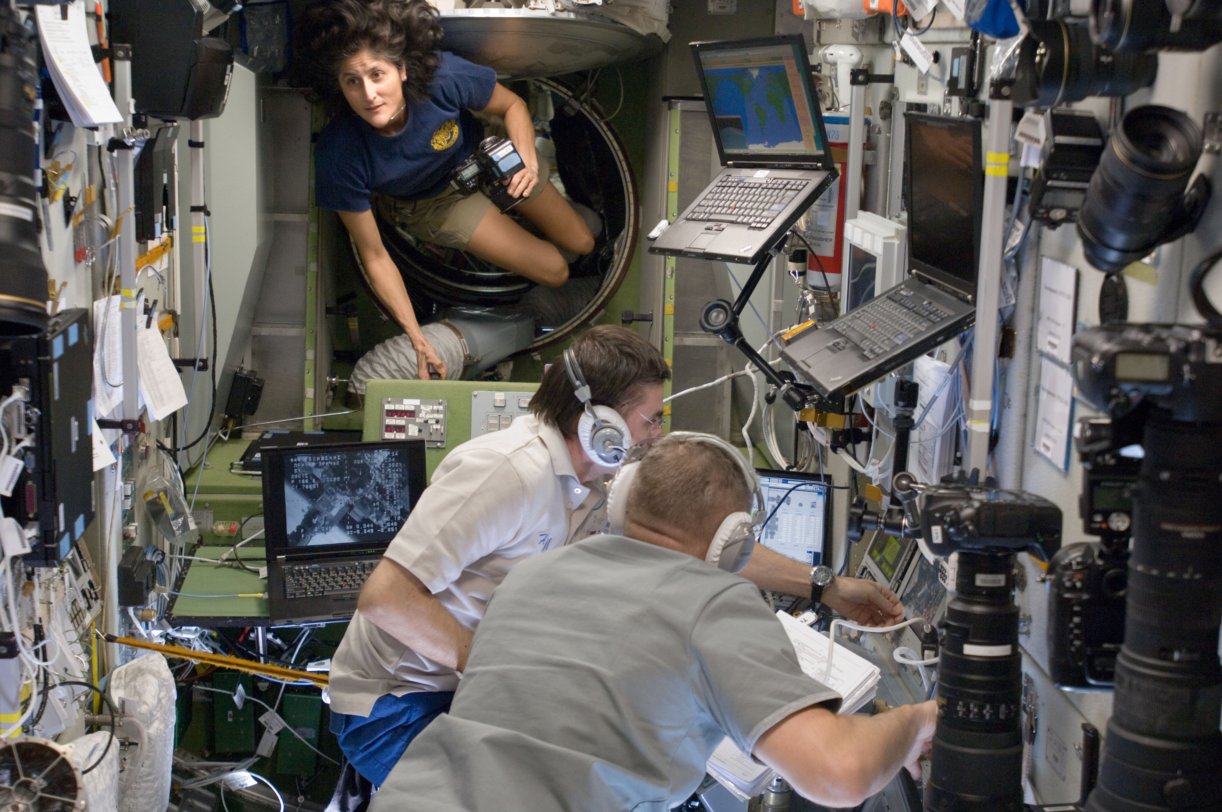 Russian cosmonauts Yuri Malenchenko and Oleg Novitskiy, both Expedition 33 flight engineers, monitor data at the manual TORU docking system controls in the Zvezda Service Module of the International Space Station during approach and docking operations of the unpiloted ISS Progress 49 resupply vehicle. Progress 49 docked automatically to Zvezda's aft port at 9:33 a.m. (EDT) on Oct. 31, 2012. NASA astronaut Sunita Williams, commander, is visible at top left.